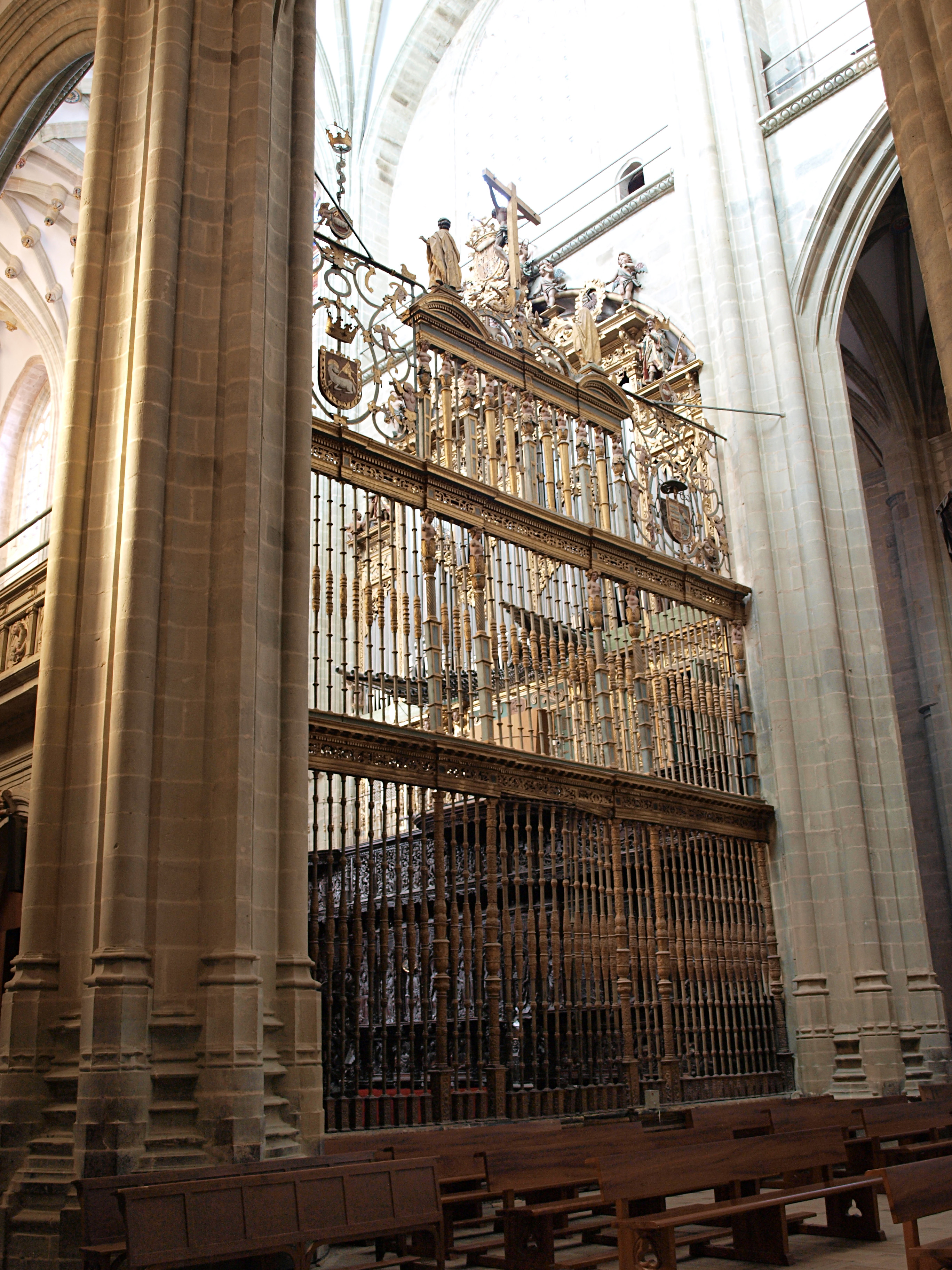 Astorga Cathedral, Astorga (Province of León, Spain).